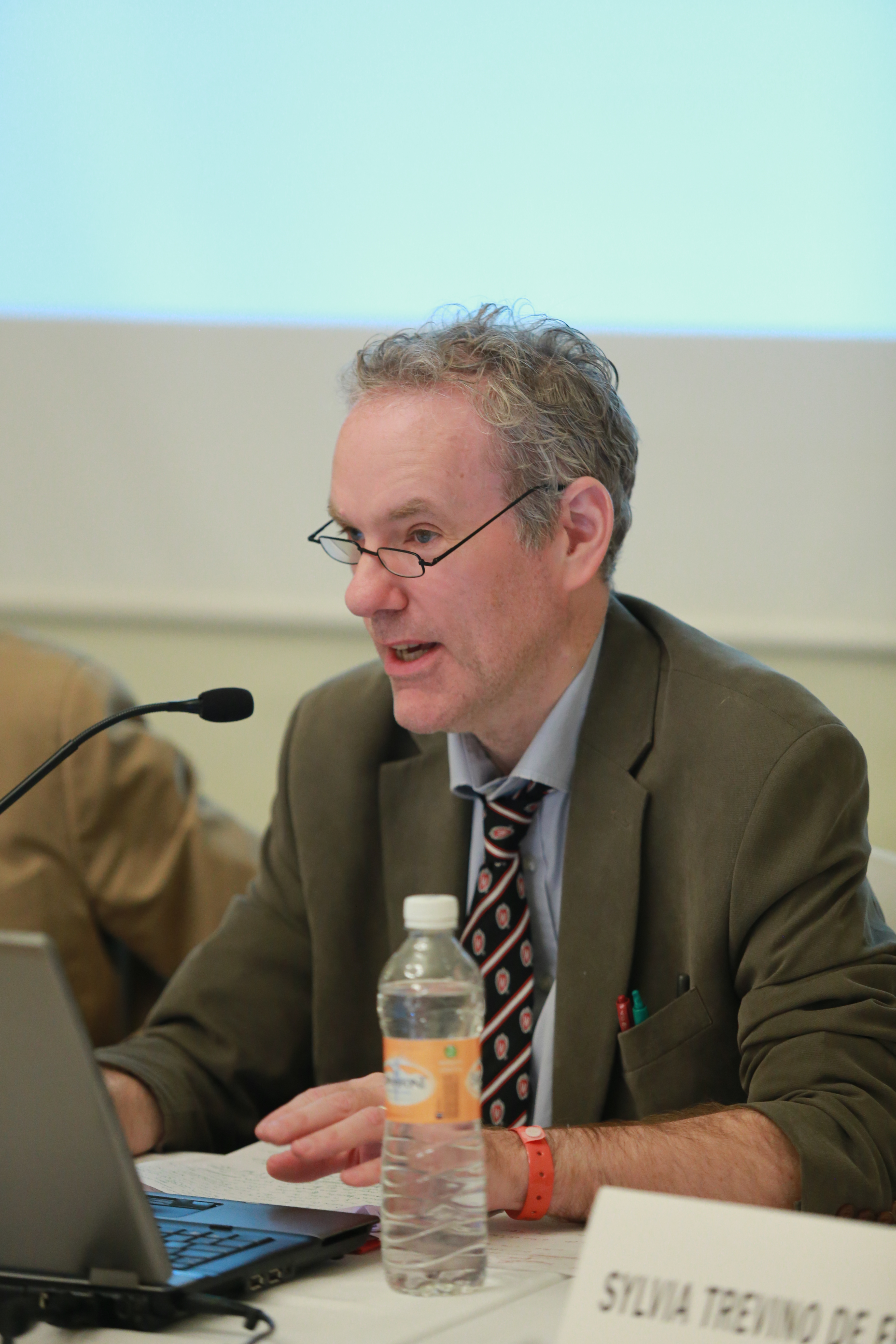 Mazatlan Forum 2015